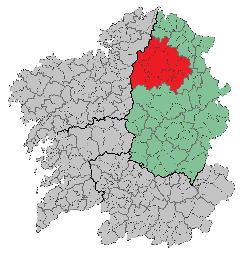 Community of Galicia (Spain)Based in: Image:Location of Betanzos.png Source: Designed by Leoplus. Original picture, designed by Caiser over a work made by Alyssalover.